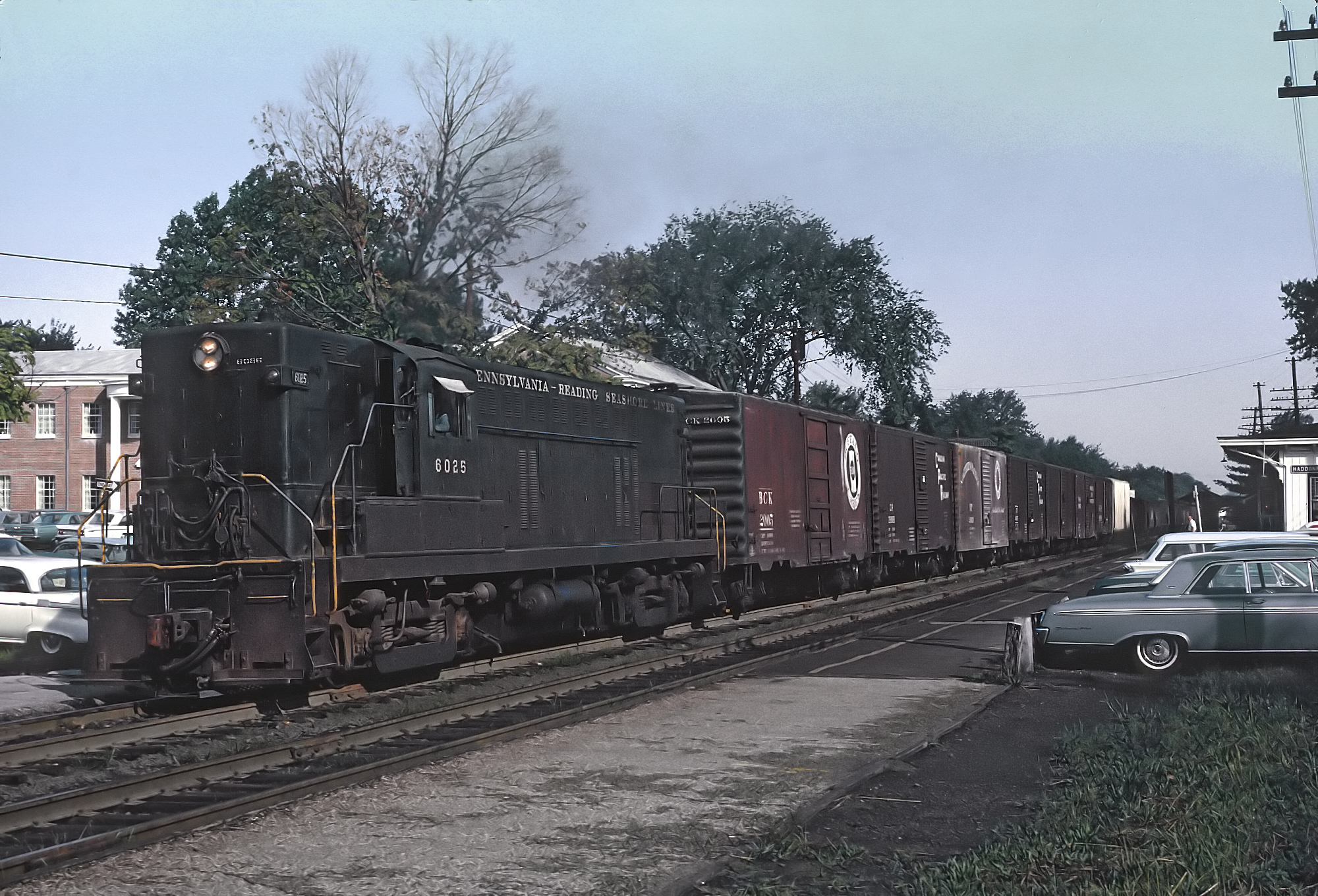 A Pennsylvania-Reading Seashore Lines freight at Haddonfield station in 1965